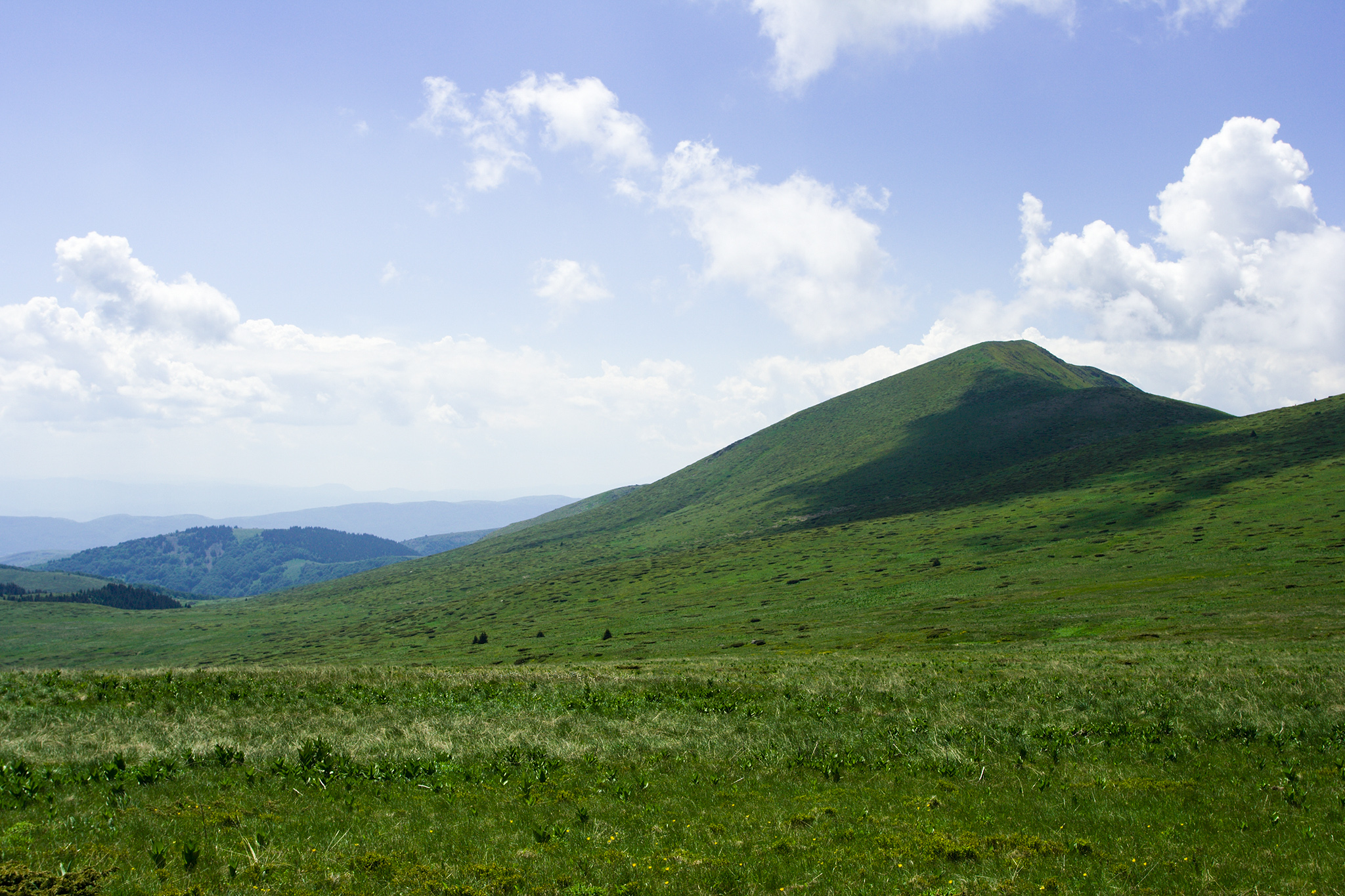 Kom as seen from the East, Stara Planina, Bulgaria